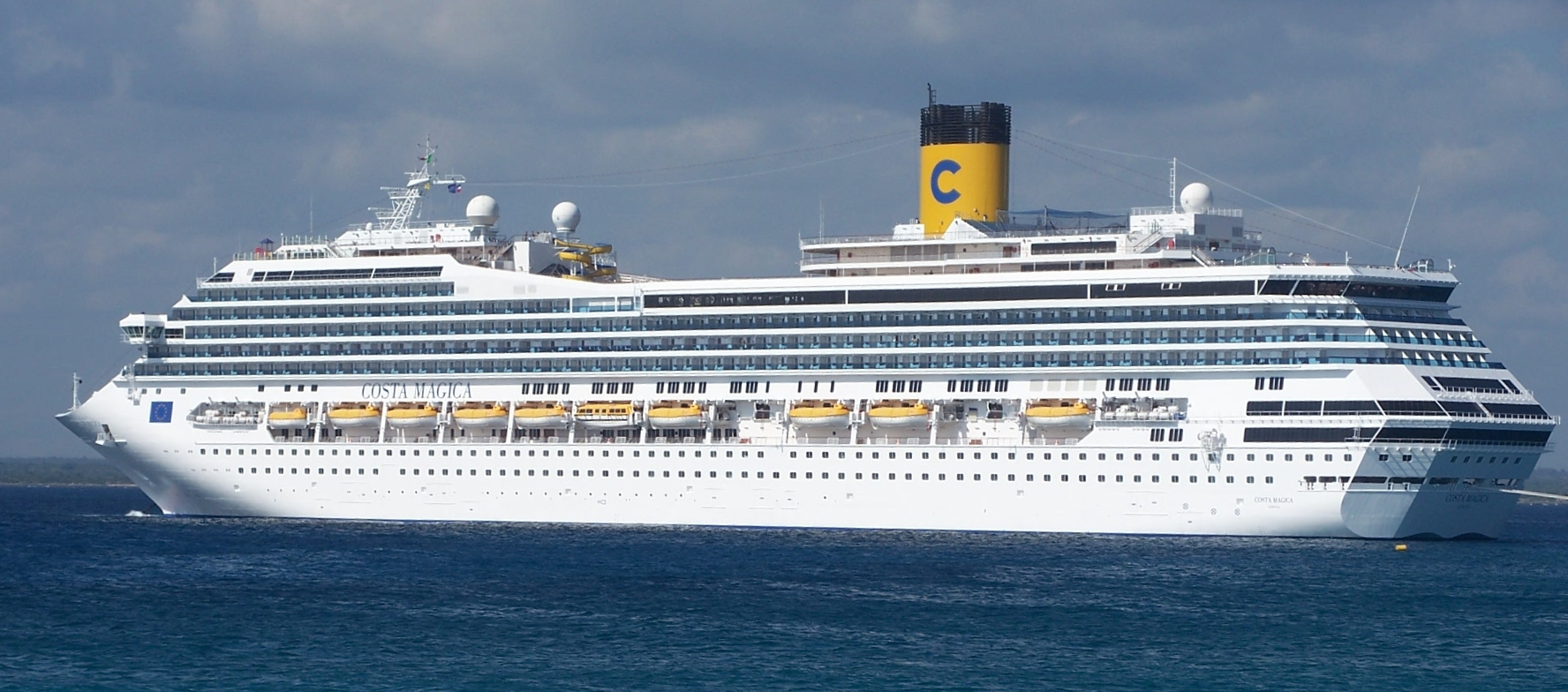 Costa Magica. Picture was take at Carnival Cruise Lines private island Catalina Island.